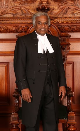 Bas Balkissoon